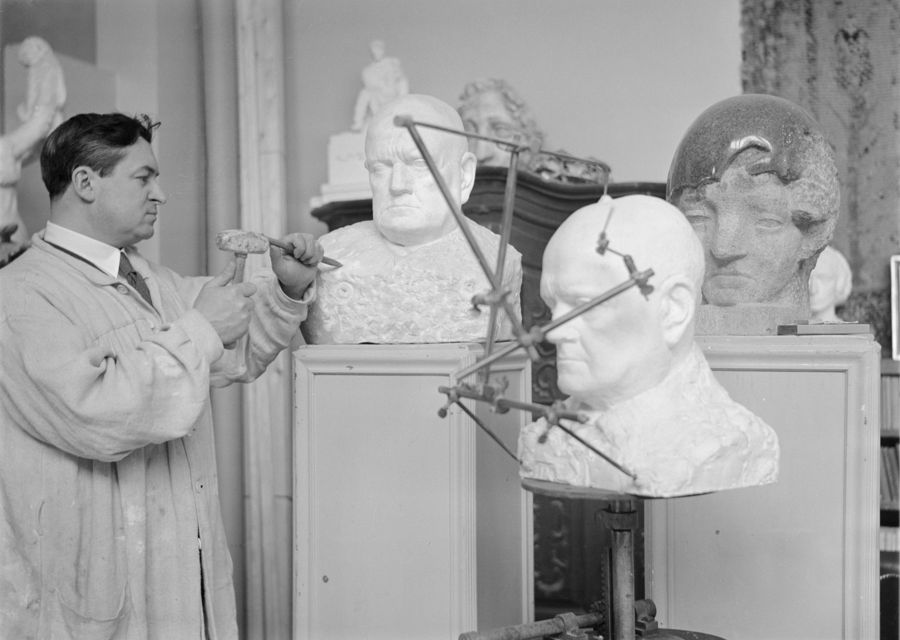 Sculptor Wäinö Aaltonen finishes the bust of Jean Sibelius.